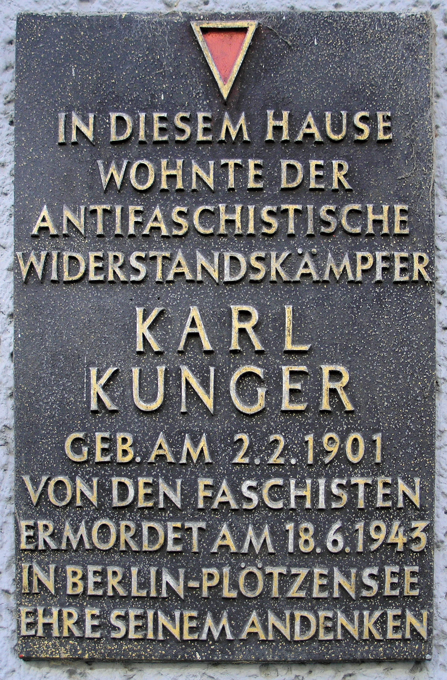 Memorial plaque, Karl Kunger, Krossener Straße 27, Berlin-Friedrichshain, Germany Koordinate:52°30′36″N 13°27′41″E / 52.51°N 13.46139°E